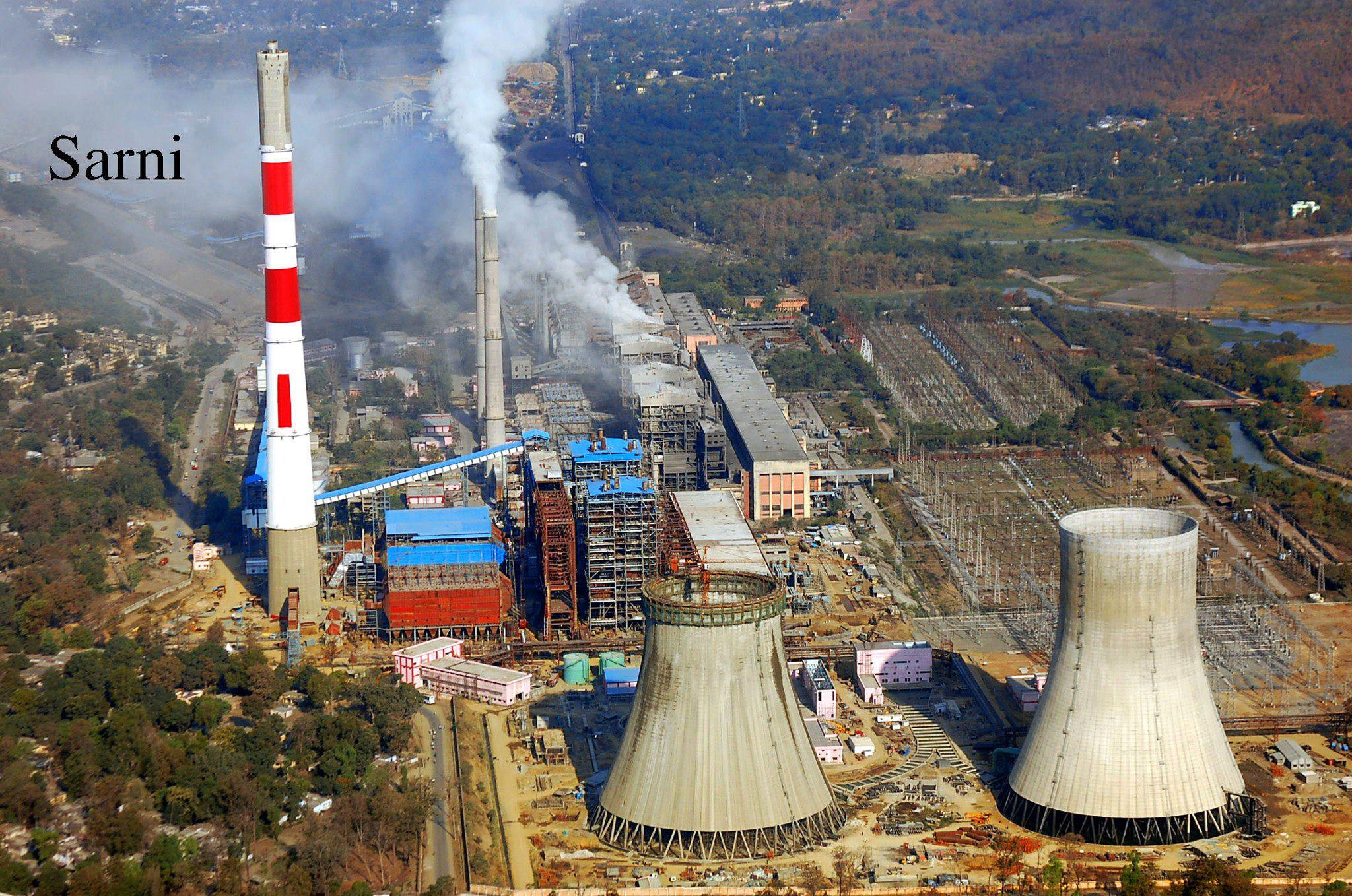 this is the beautiful power plant in Sarni, Madhya Pradesh